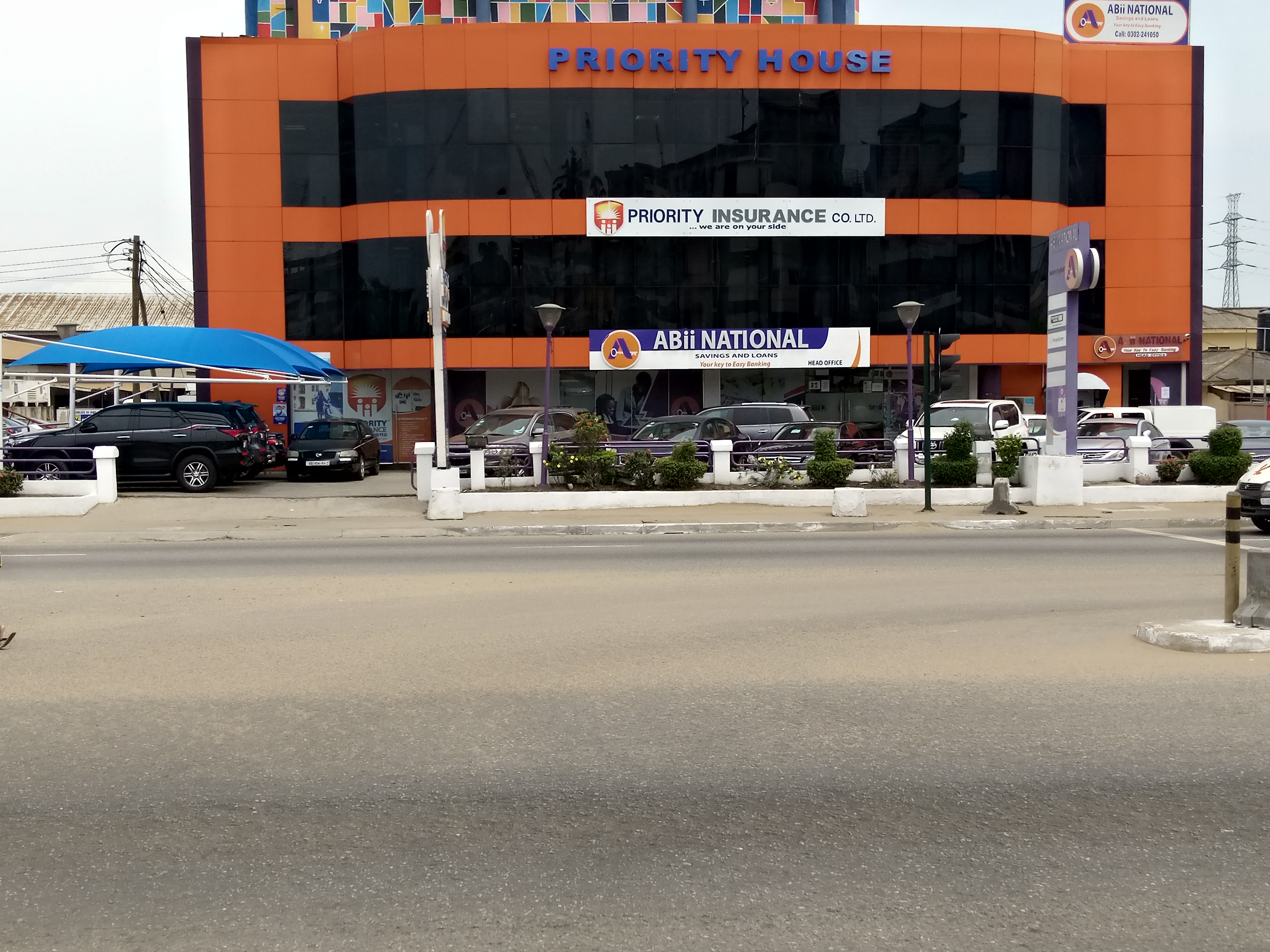 Financial Institution